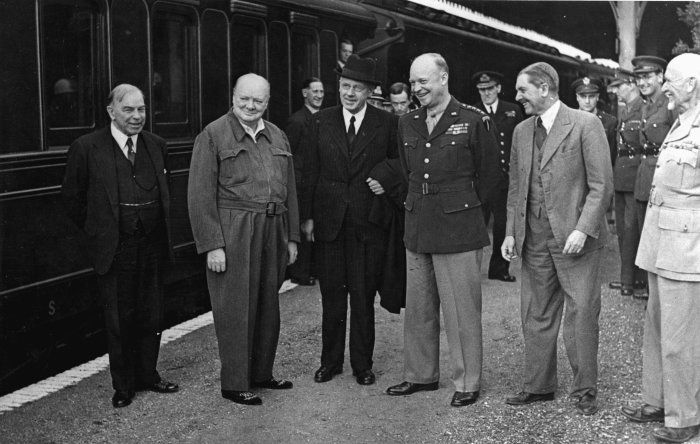 Five Commonwealth Prime Ministers and the Supreme Allied Commander in Europe, General Dwight D Eisenhower of the United States Army, photographed somewhere in England during a halt of the train taking them to inspect Allied troops just before the Normandy Landings. From left to right: William Lyon Mackenzie King (Prime Minister of Canada) Winston Churchill (Prime Minister of the United Kingdom) Peter Fraser (Prime Minister of New Zealand) Dwight D. Eisenhower (Supreme Allied Commander in Europe) Godfrey Huggins (Prime Minister of Southern Rhodesia) Jan Christiaan Smuts (Prime Minister of South Africa)